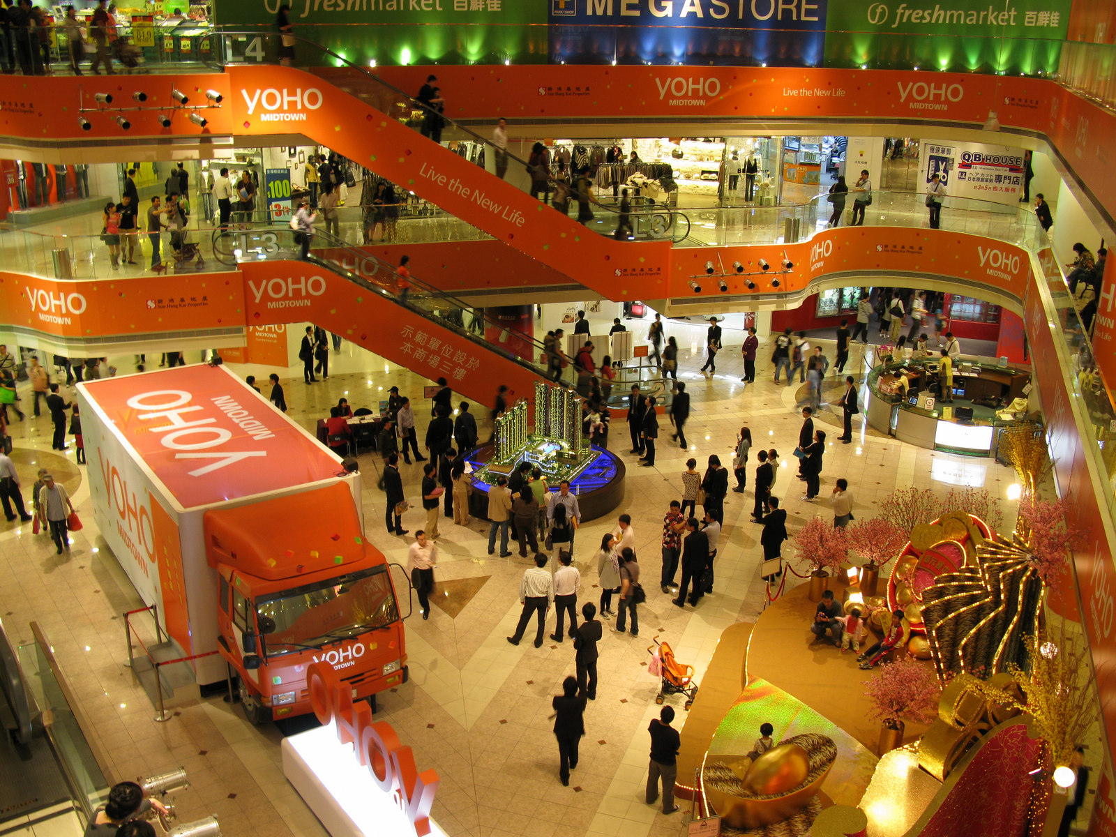 YOHO MidTown Sales Office at Sun Yuen Long Centre